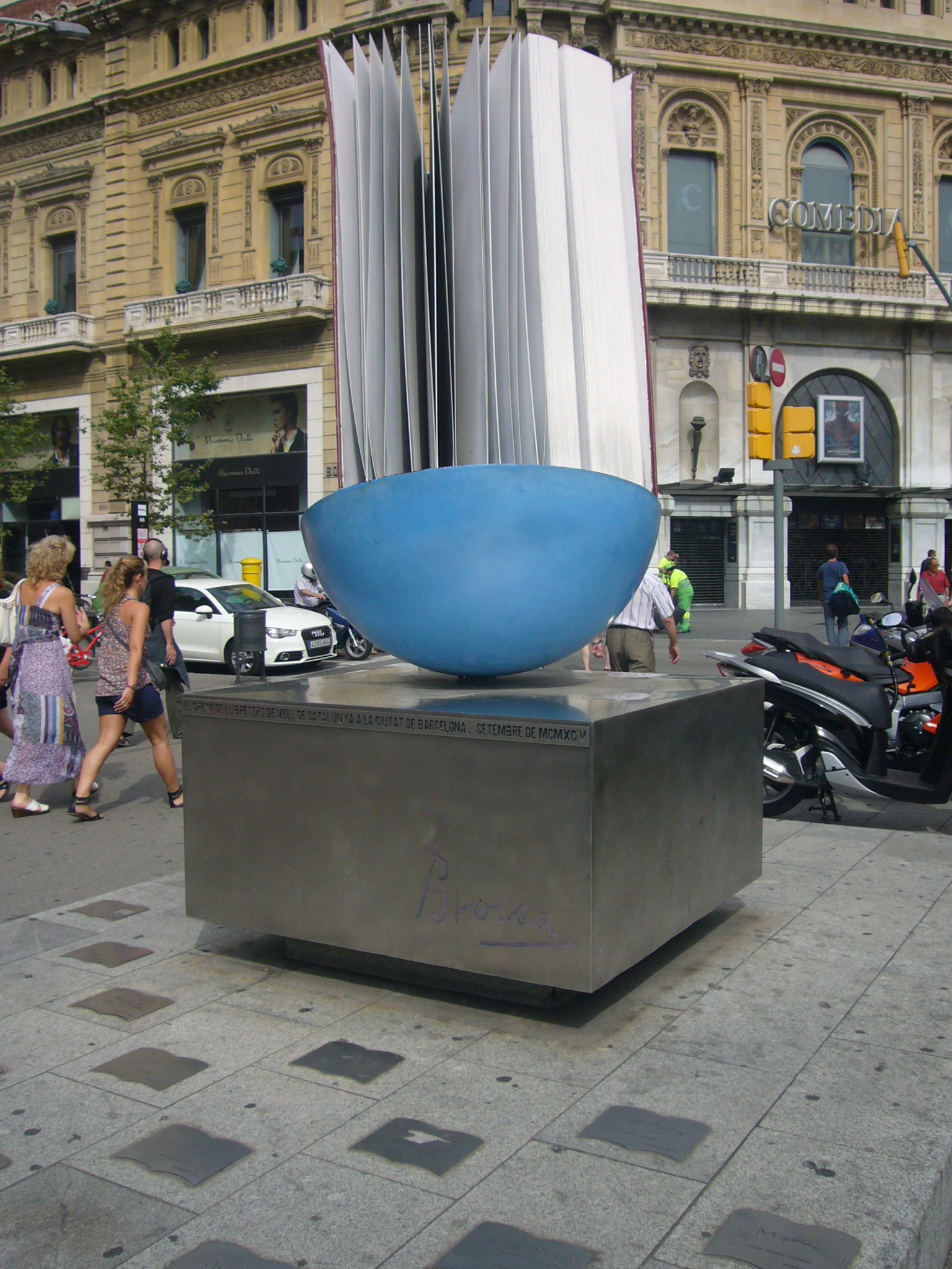 Monument al Llibre (Joan Brossa)